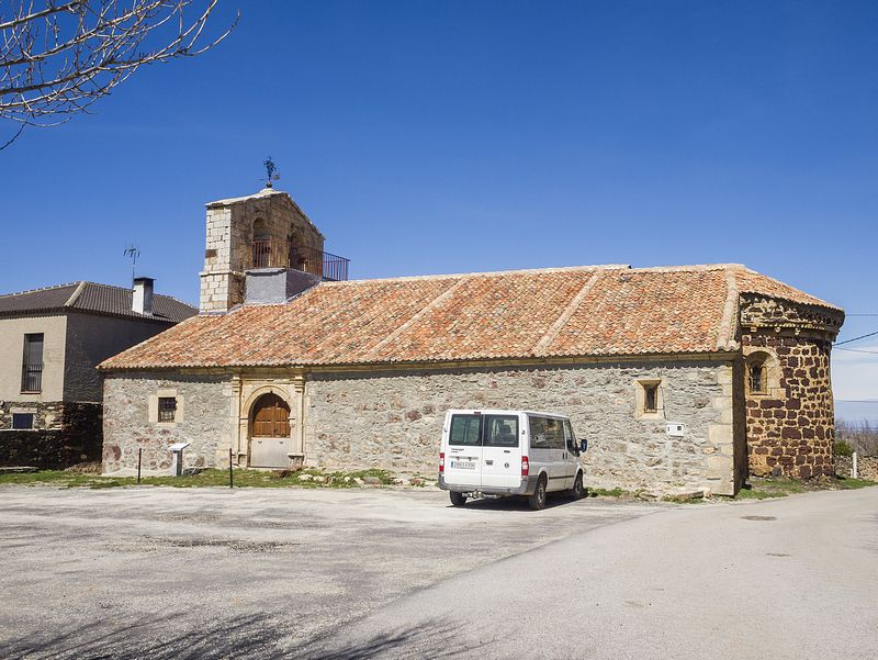 Iglesia de Becerril